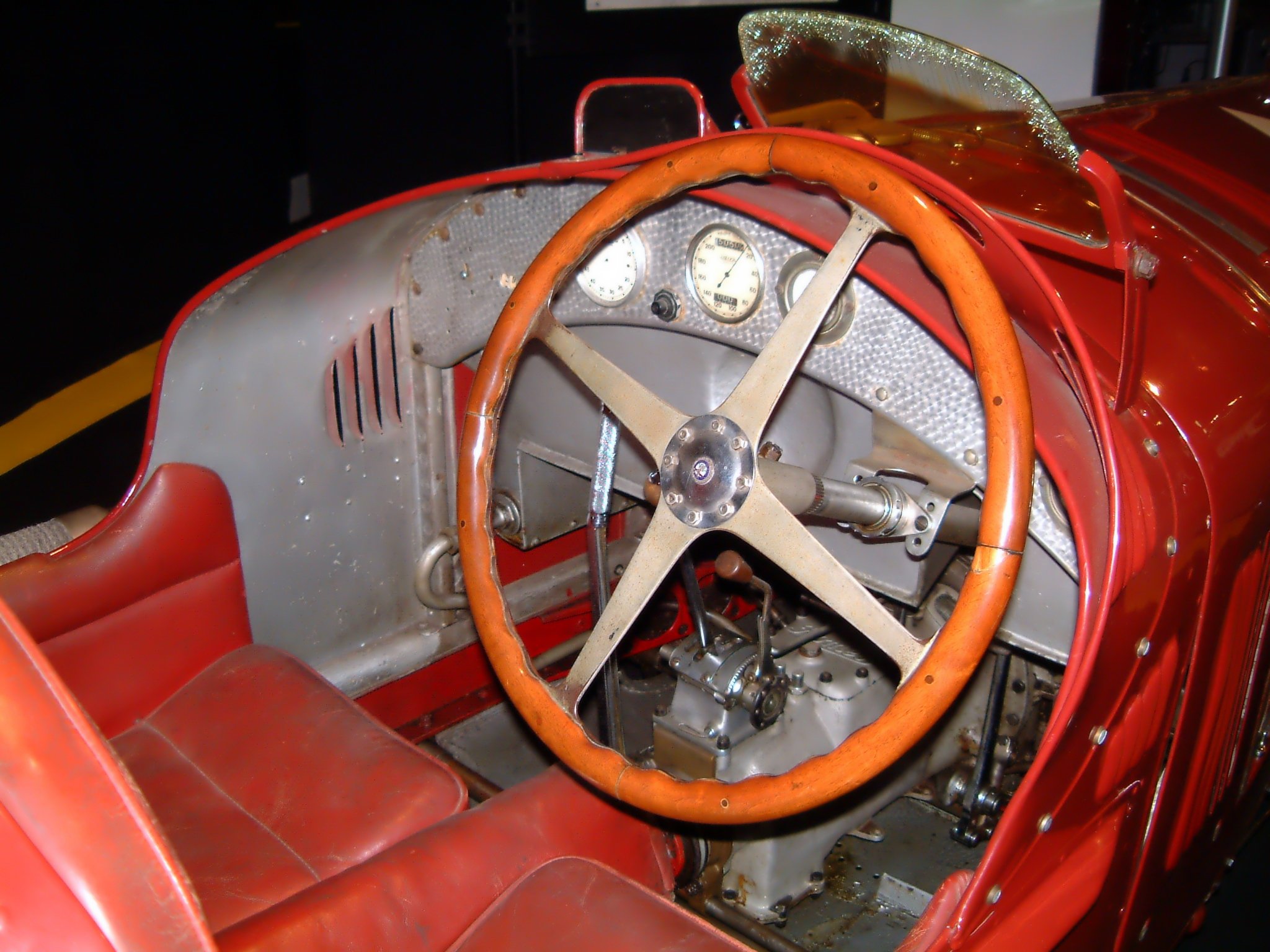 Cockpit of a 1930 Alfa Romeo P2.